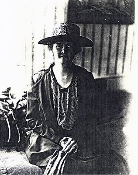 Photograph of Agnes Weinrich taken before 1923, location and photographer unknown. Source: Provincetown Art Association and Museum. Used by permission of owner.